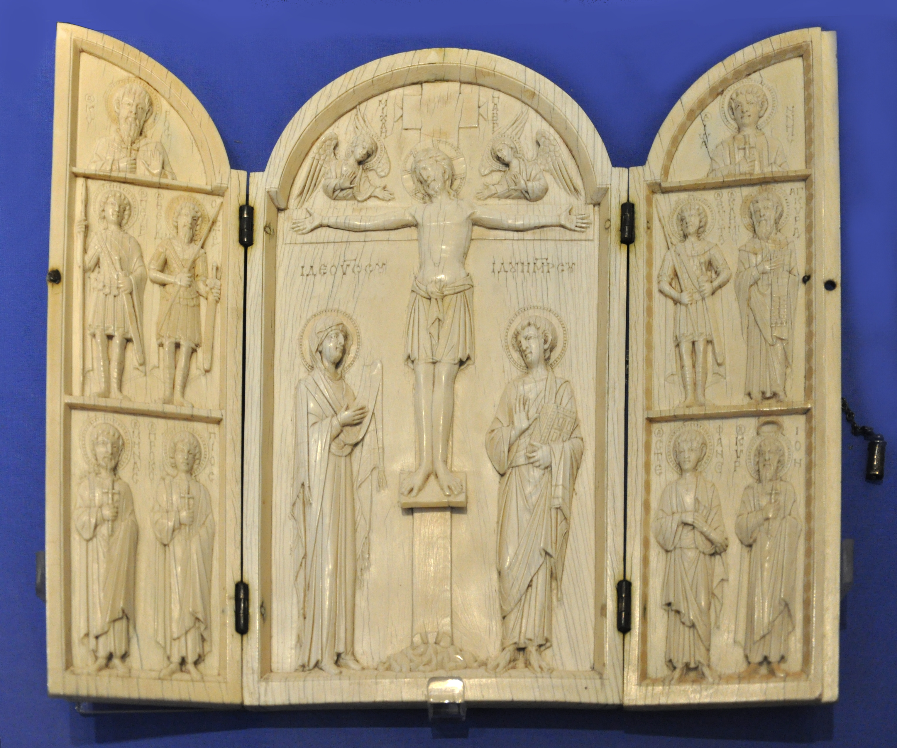 British Museum reference1923,1205.1Detailed descriptionThe Borradaile Triptych, ivory, Constantinople, ca. 900–1000 AD (bequeathed by C. Borradaile). Motives: Central panel carved with the Crucifixion, the Virgin and St John, and above, the half-length figures of the archangels Michael and Gabriel; on the left leaf, from top to bottom: St Kyros; St George and St Theodore Stratilates; St Menas and St Prokopios; on the right leaf: St John; St Eustathius and St Clement of Ankyra; St Stephen and St Kyrion. On the reverse are two inscribed crosses and roundels containing busts of Sts Joachim and Anna in the centres, with Sts Basil and Barbara, and John the Persian and Thekla at the terminals.LocationRoom 40